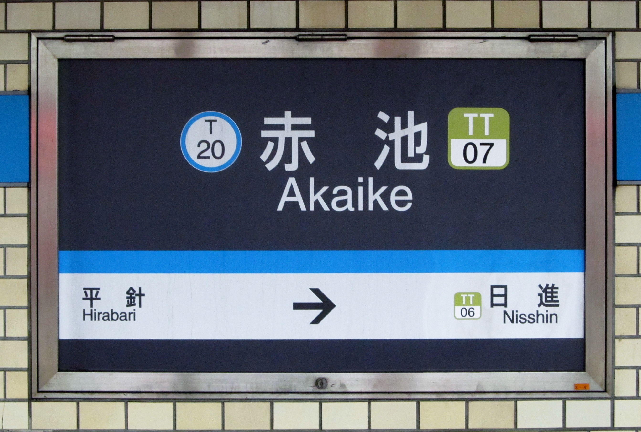 Transportation Bureau City of Nagoya, Nagoya Municipal Subway Tsurumai Line / Nagoya Railroad Toyota Line Akaike Station signboard